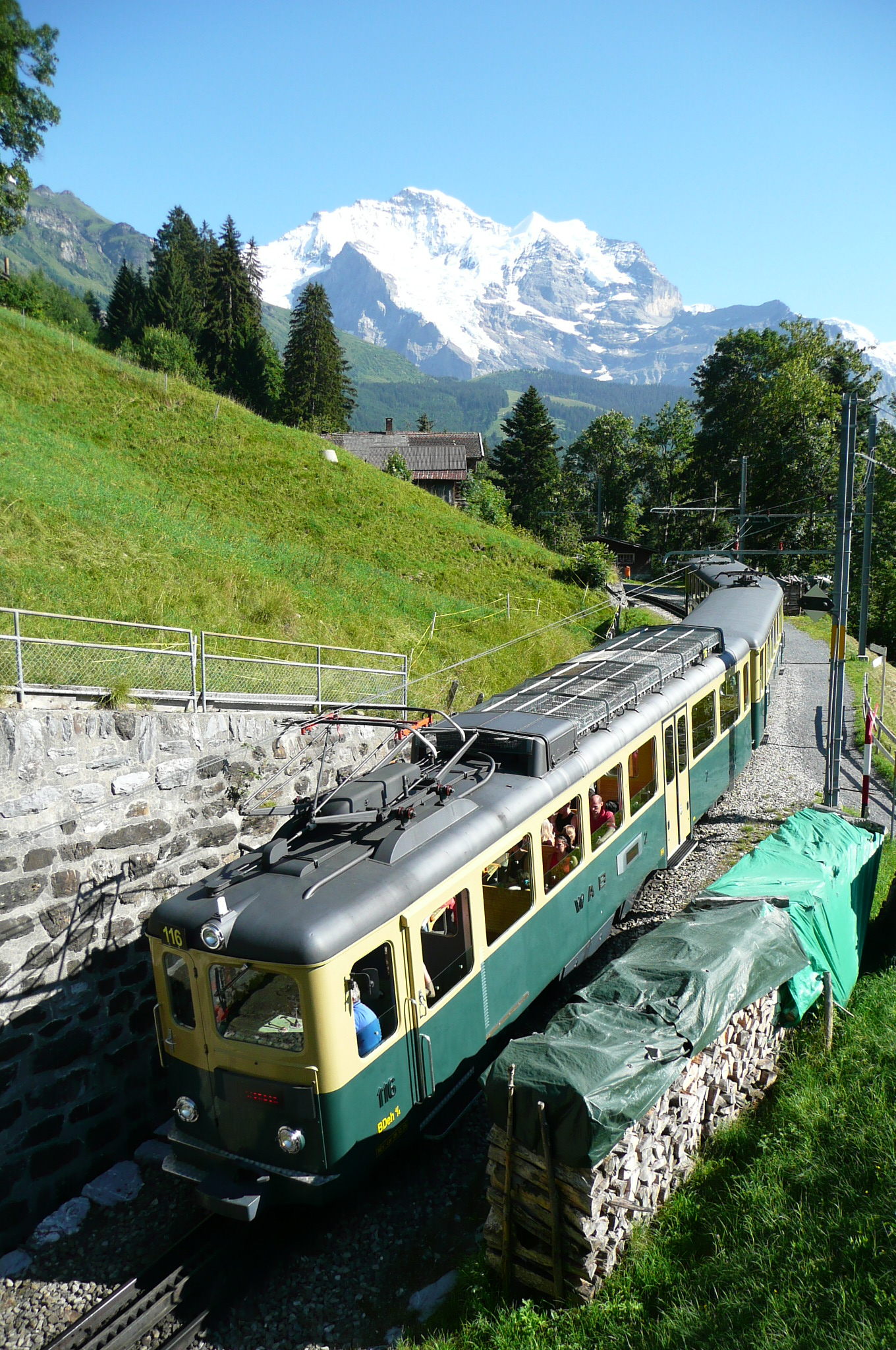 Wengernalp rack railway shuttle train 116 entering tunnel close to stop on request Wengwald near Wengen. Jungfrau. Line Lauterbrunnen-Kleine Scheidegg – 2009-08-05